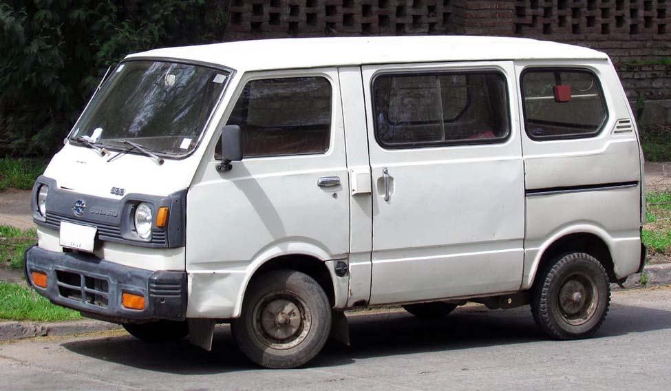 Subaru 600 Van 1981 (export version of third generation Subaru Sambar)